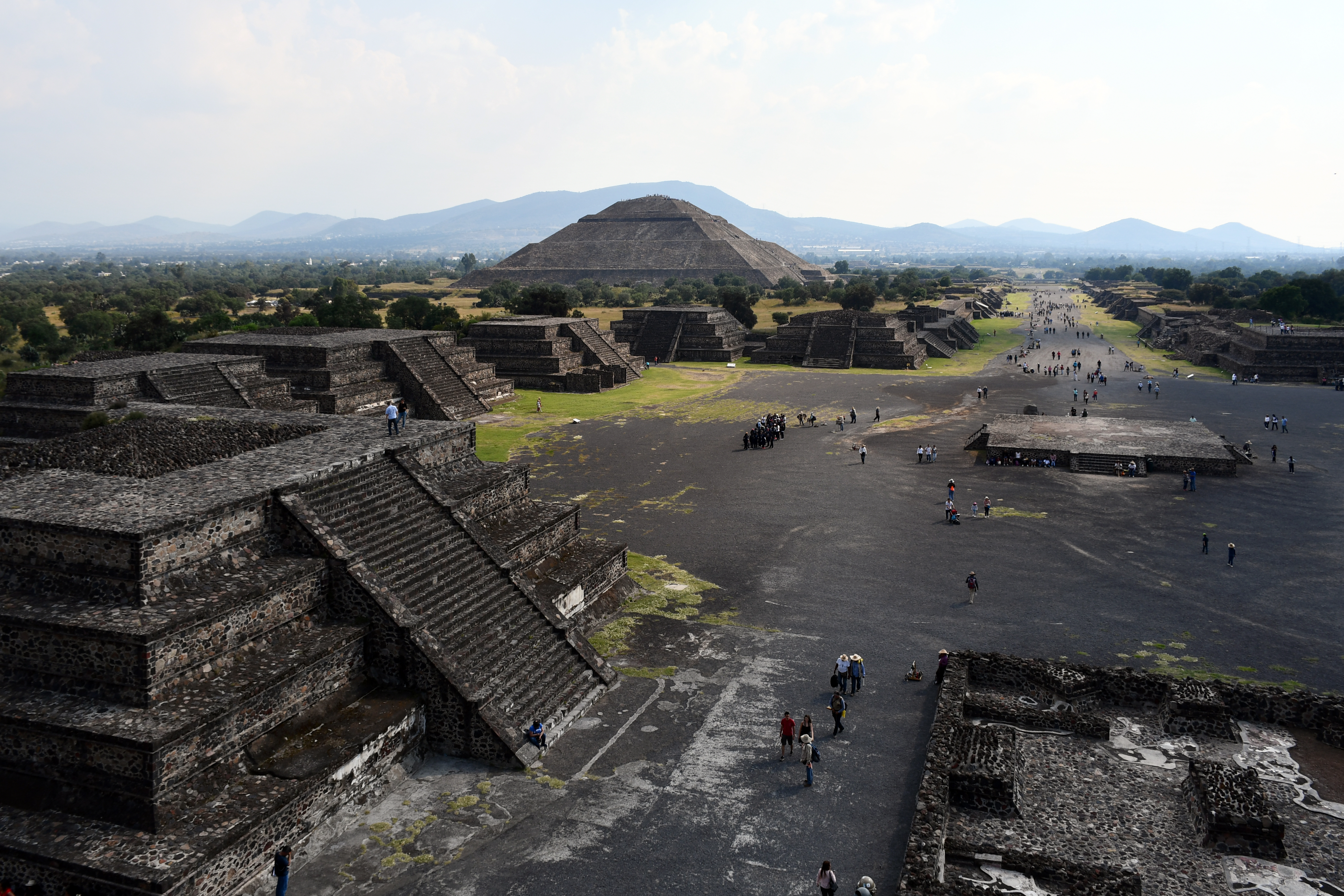 The Pyramid of the Sun, the Avenue of the Dead and some talud-tablero, at Teotihuacan, an ancient Mesoamerican city located in a sub-valley of the Valley of Mexico (Greater Mexico City).